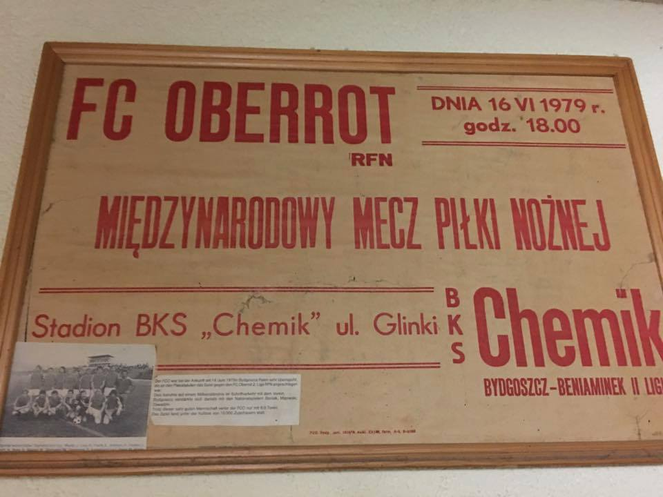 Chemik Bydgoszcz vs. FC Oberrot in 1979 8:0 (Friendly game)